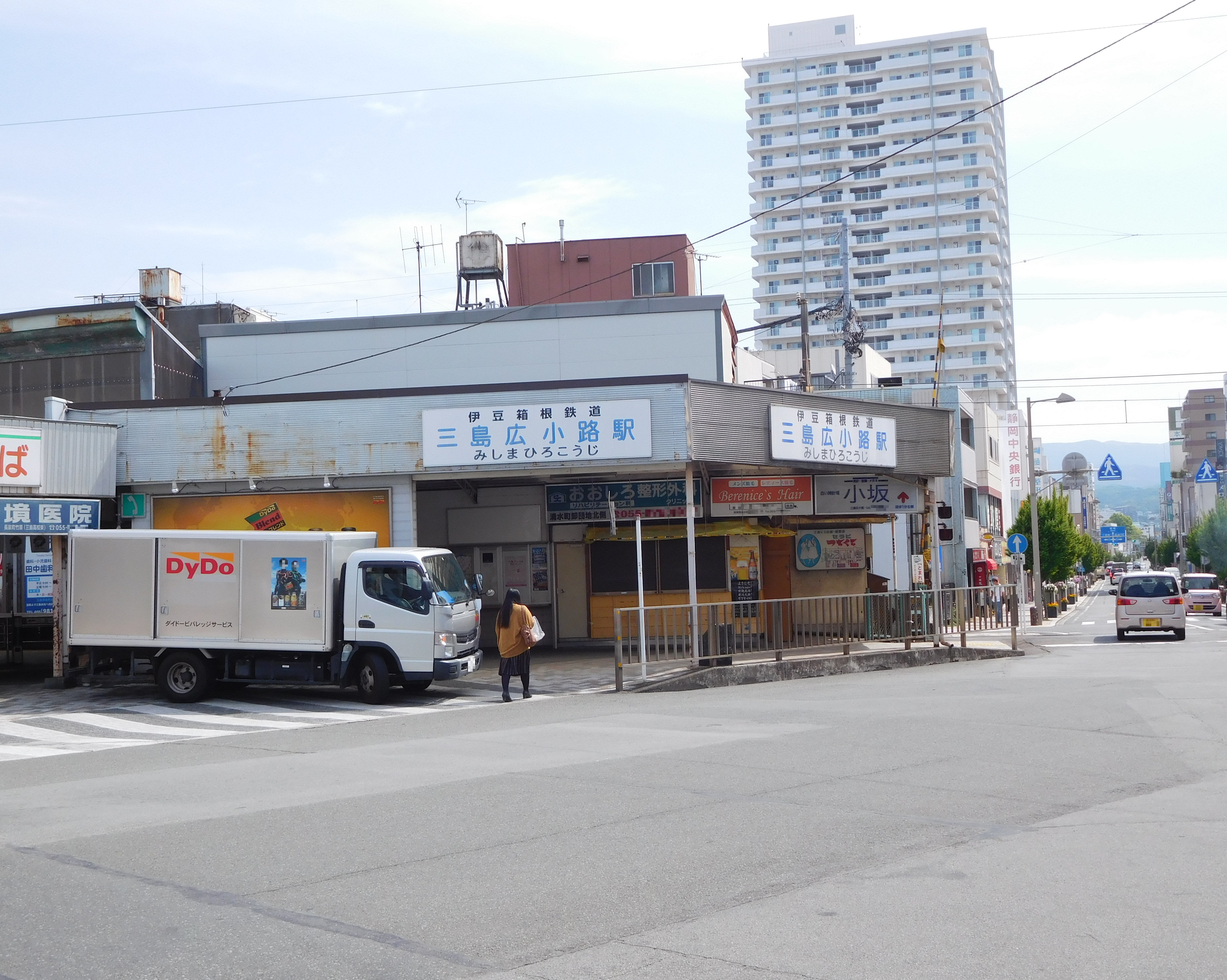 This is Mishima-Hirokoji station in Mishima, Shizuoka, Japan.